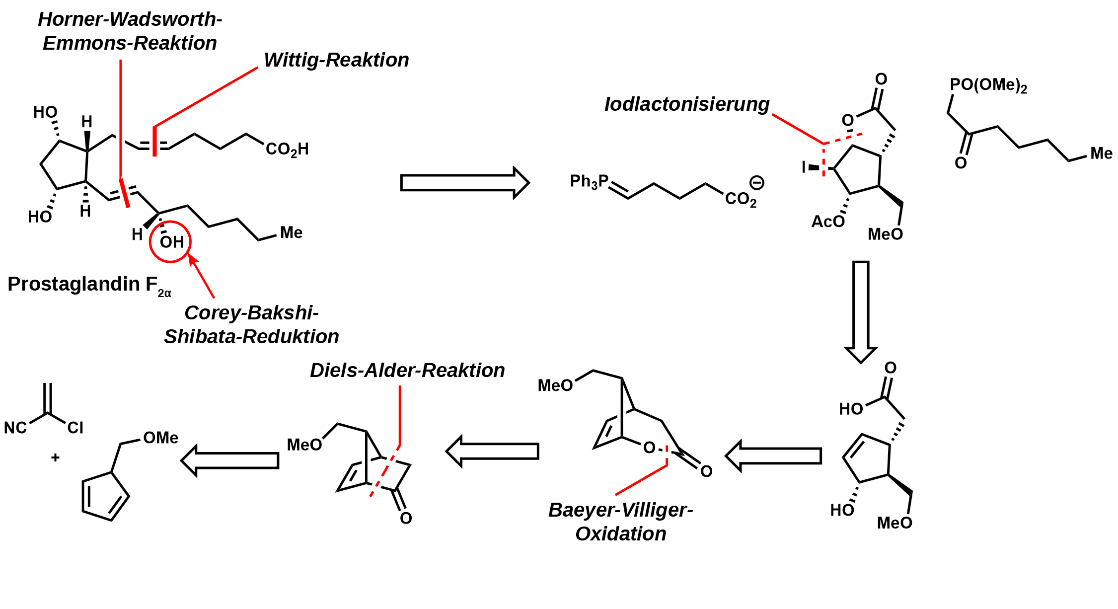 retosynthesis prostaglandin